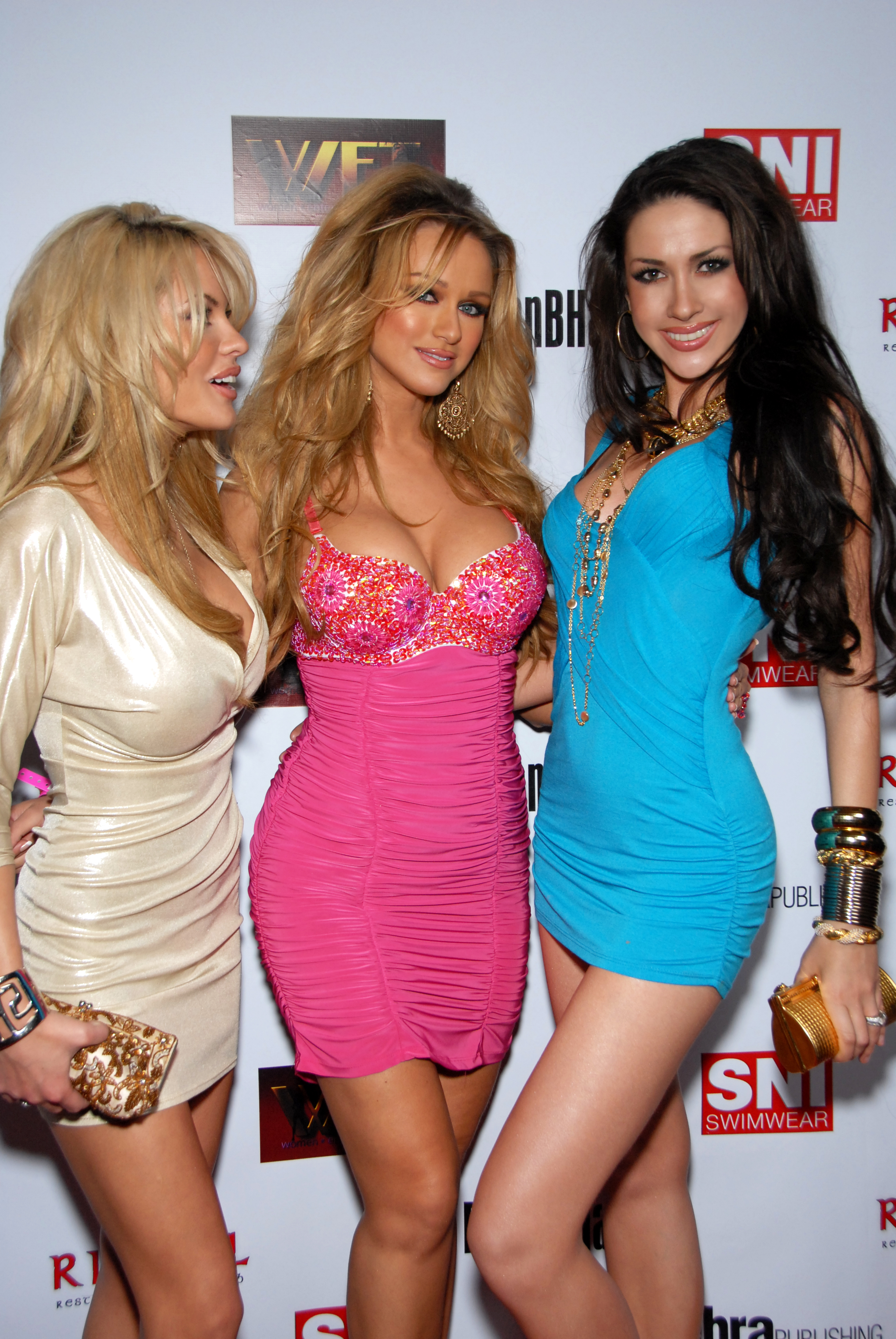 Glamour Models posing on the Red Carpet - Hollywood, CA 03/09/2008 - Photo by Glenn Francis of